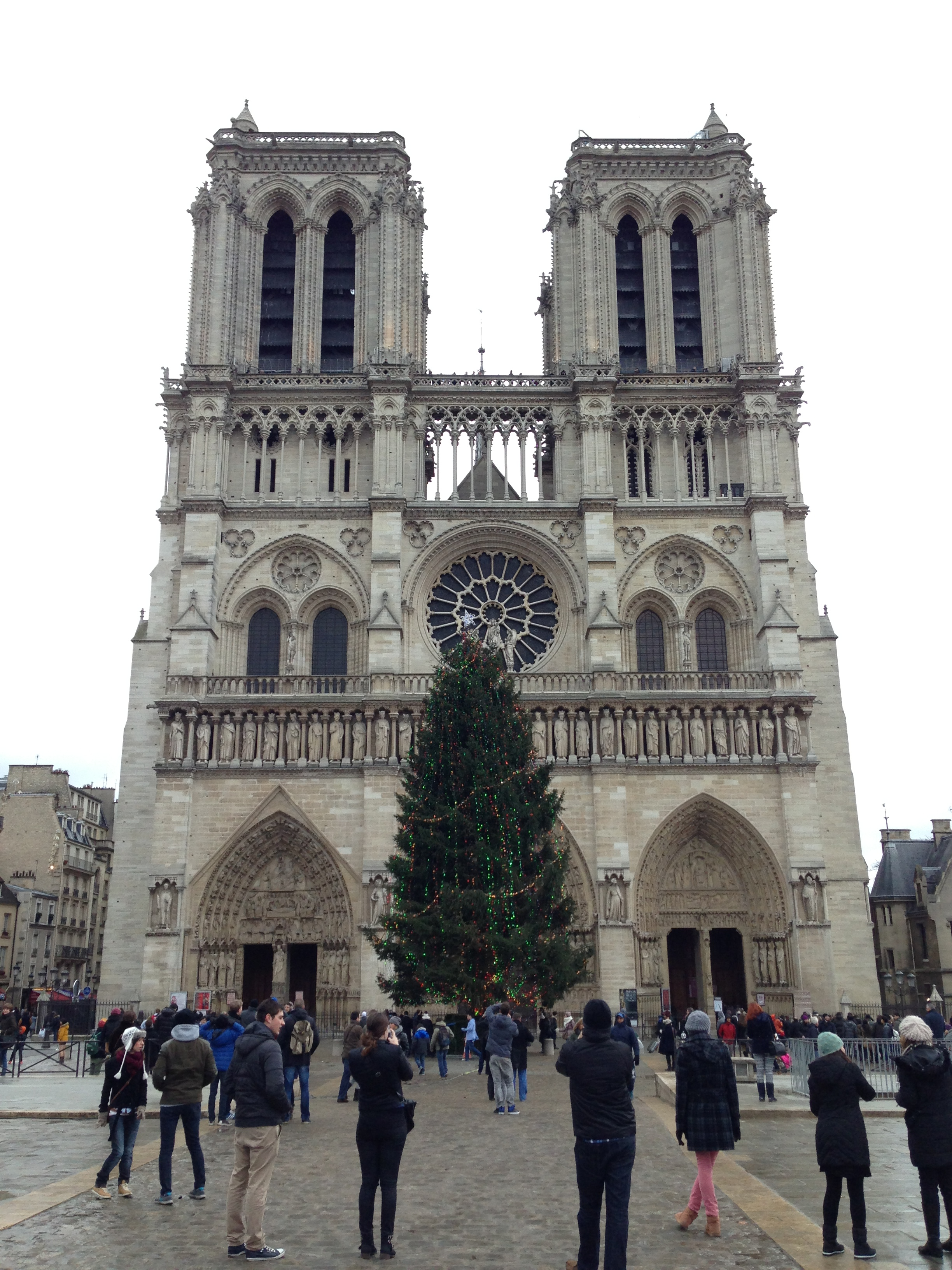 notre dame at Christmas